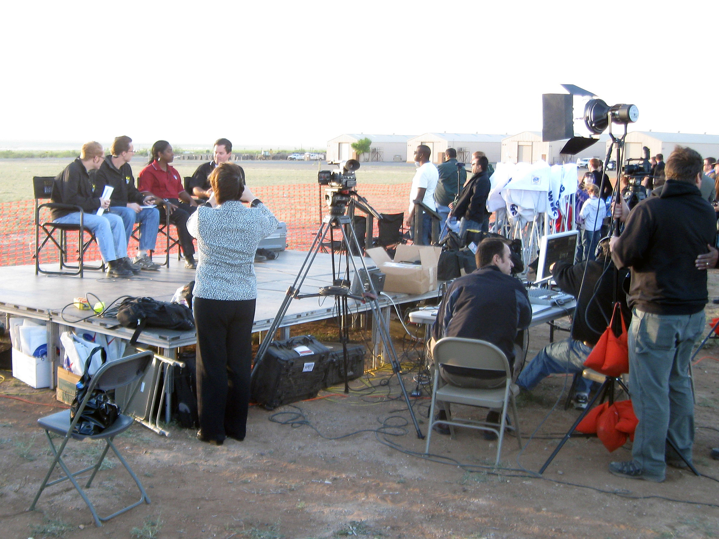 NASA EDGE broadcasting live from the Orion Pad Abort 1 test flight at White Sands Missile Range, New Mexico. On stage, left to right: Blair Allen (NASA EDGE co-host), Chris Giersch (NASA EDGE host), Laurie Grindle (Project Manager, Abort Test Booster, NASA Dryden Flight Research Center), and Brent Cobleigh (Director, Exploration Mission Directorate, NASA Dryden Flight Research Center).